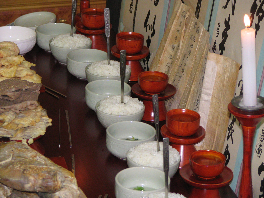 Jesa, Korean ancestor veneration held on Chuseok (Korean mid-autumn festival).